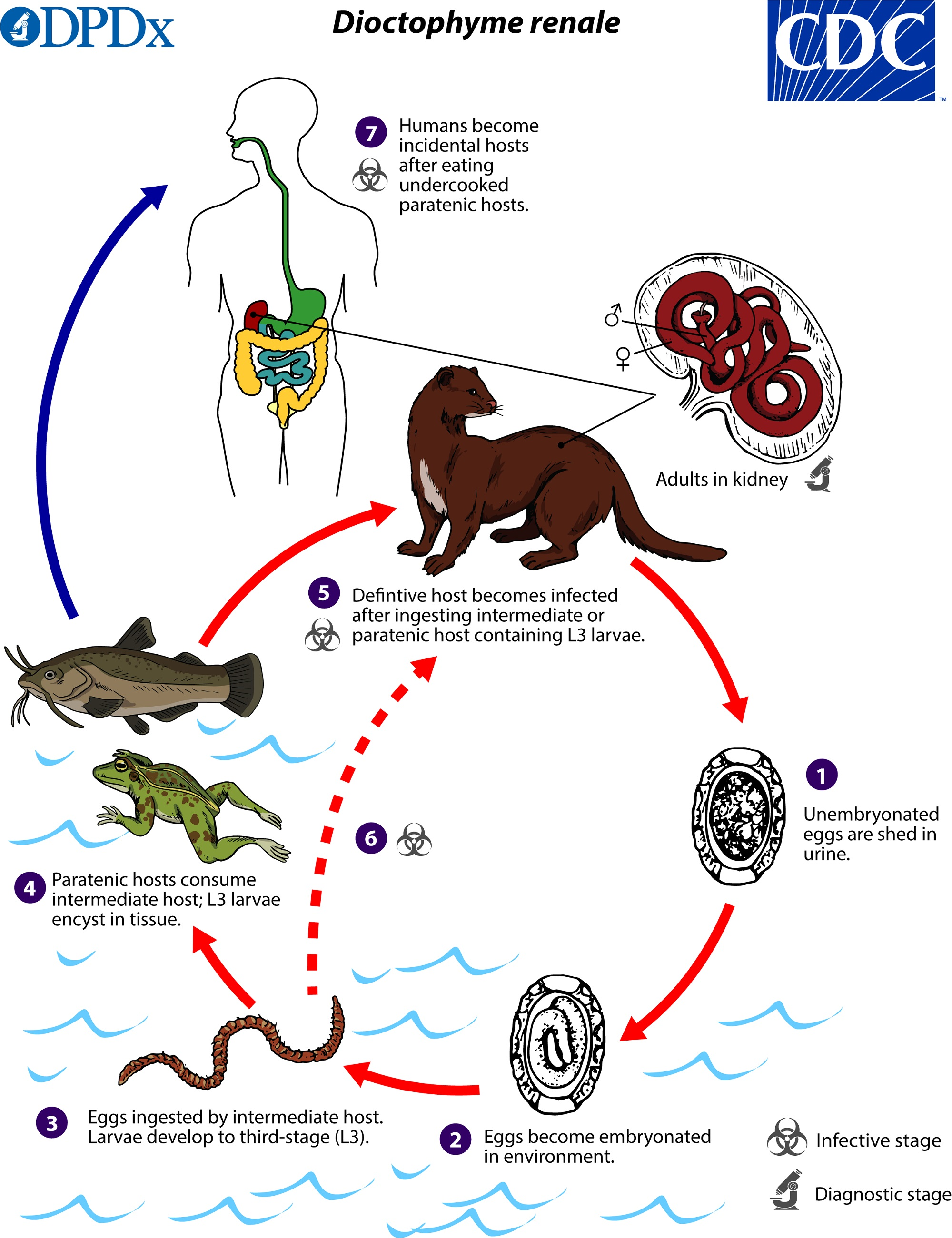 Life cycle of Dioctophyme renale, the giant kidney worm.